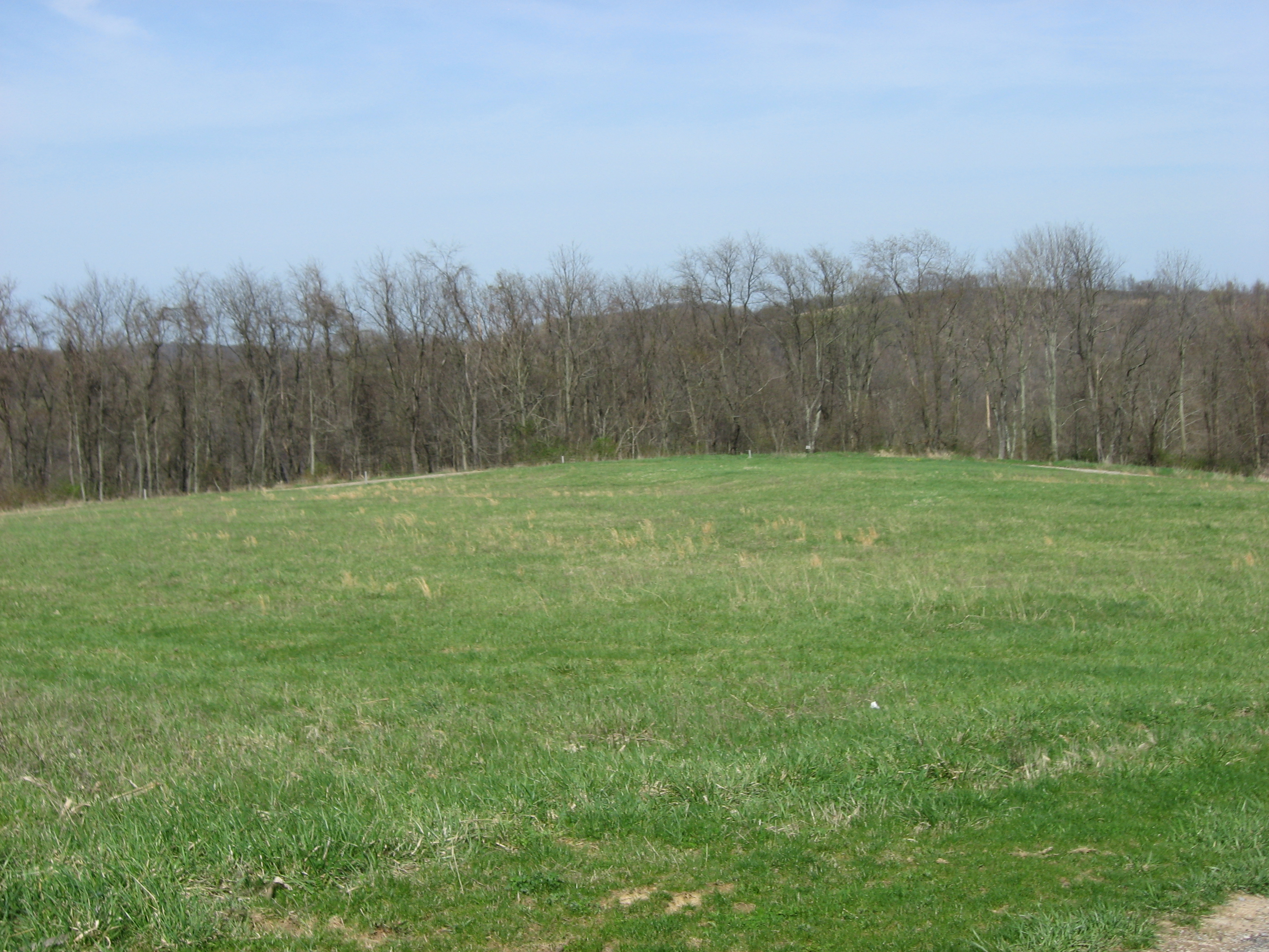 Fields on the southern side of the Household No. 1 Site, located at the end of Timms Lane in Rostraver Township, Westmoreland County, Pennsylvania, United States. Now occupied by a radio-controlled airport, the Household No. 1 Site is an archaeological site that was once a village of the Monongahela culture of Native Americans. It is listed on the National Register of Historic Places.